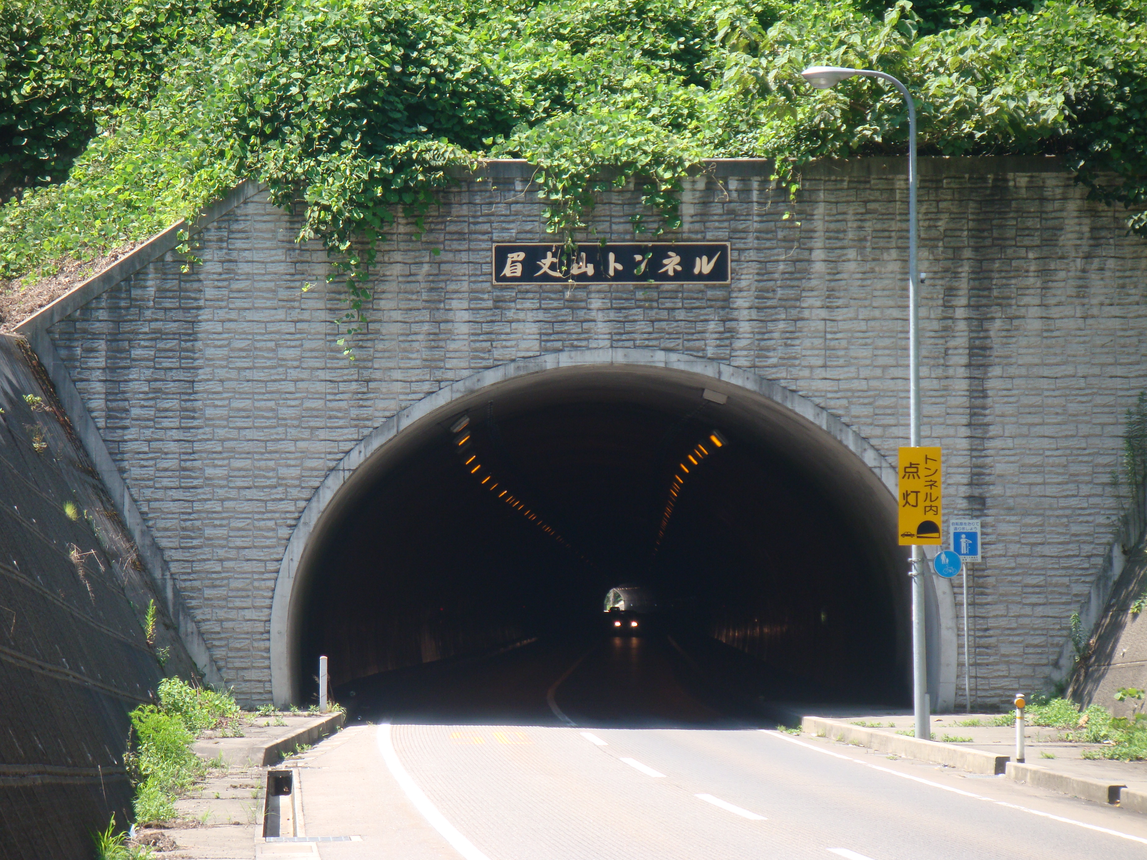 Bijouzan Tunnel（Ishikawa Prefectural Road Route 251（Shika-Rokusei Line）） Place - Notobe,Nakanoto Town,Kashima County,Ishikawa Prefecture,Japan Date - August 5, 2011 Format - JPEG, 3648x2736pixel, 24bit colors Photographer - NALA Wiki (talk)